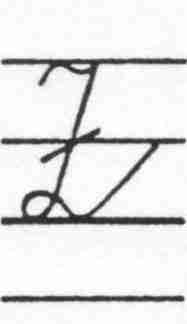 Capital letter in the Swedish and Finnish cursive writing taught in school.